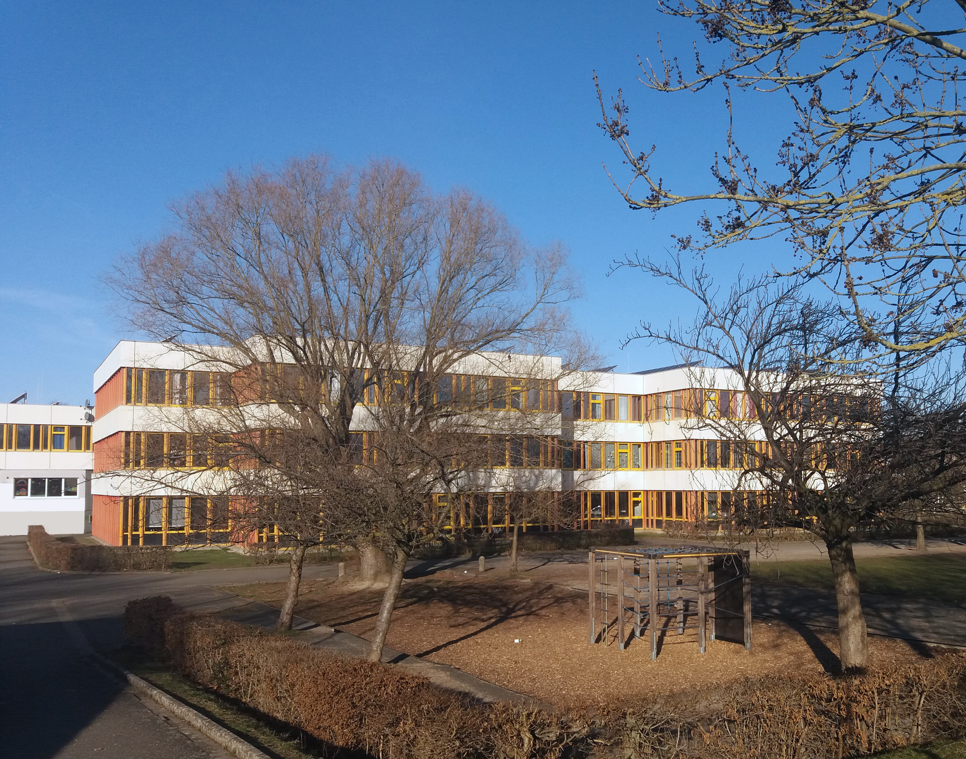 Geschwister-Scholl-Gymnasium Unna in Winter 2019